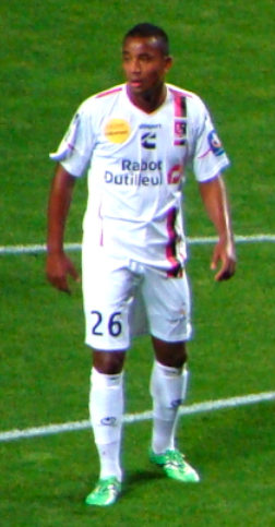 Loïc Damour (US Boulogne)